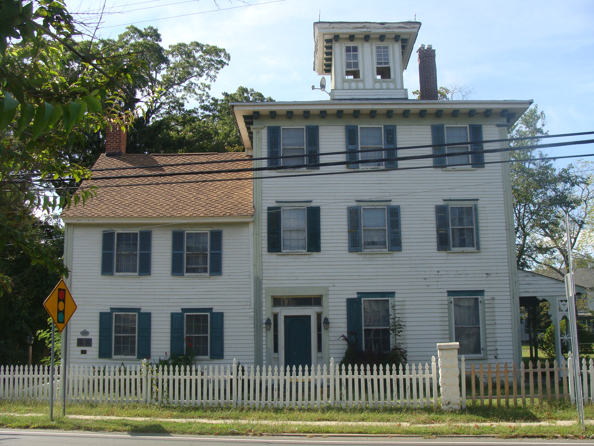 Dr. Jonathan Pitney House, 57 N. Shore Rd. Absecon City